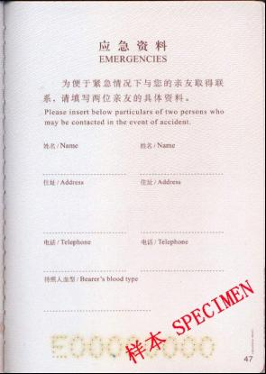 Emergencies Page of the Chinese Ordinary E-Passport Passport